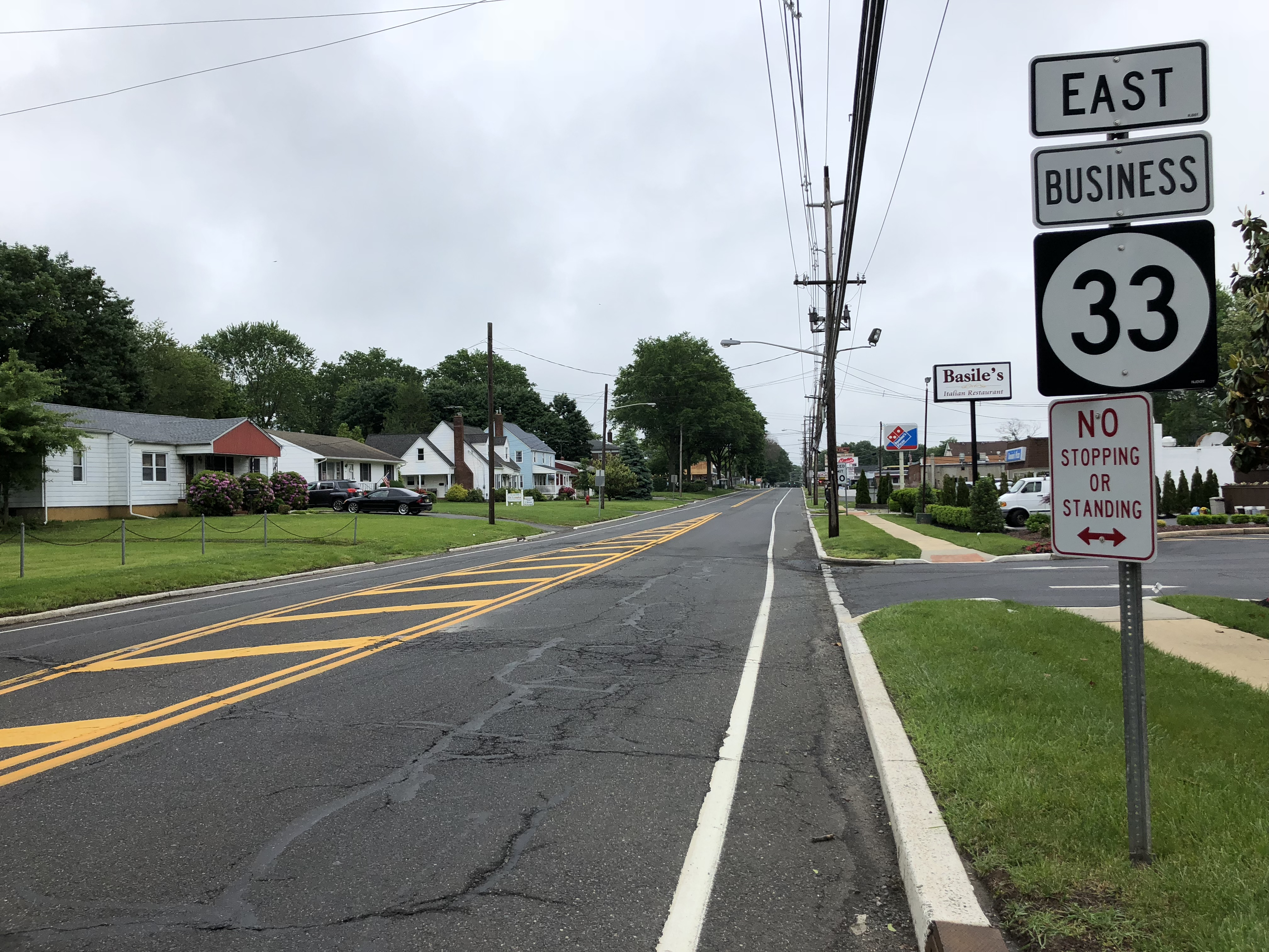 View east along New Jersey State Route 33 Business (Park Avenue) at New Jersey State Route 79 (South Street) in Freehold Borough, Monmouth County, New Jersey